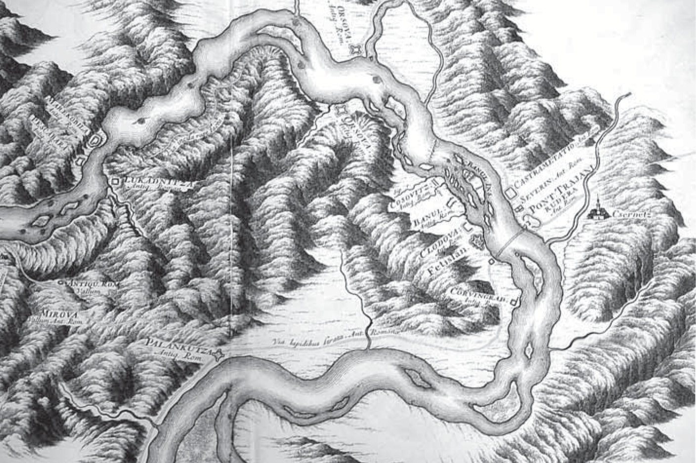 Map of a segment of the Danube with remains of Trajan's Bridge near Drobeta-Turnu Severin, Romania. The map also depicts remains of Roman forts (castrametationes) and roads (viae). Published in the 1726 work Danubius Pannonico-Mysicus, Volume 2 by the Italian naturalist and soldier Luigi Ferdinando Marsigli (1658 – 1730).